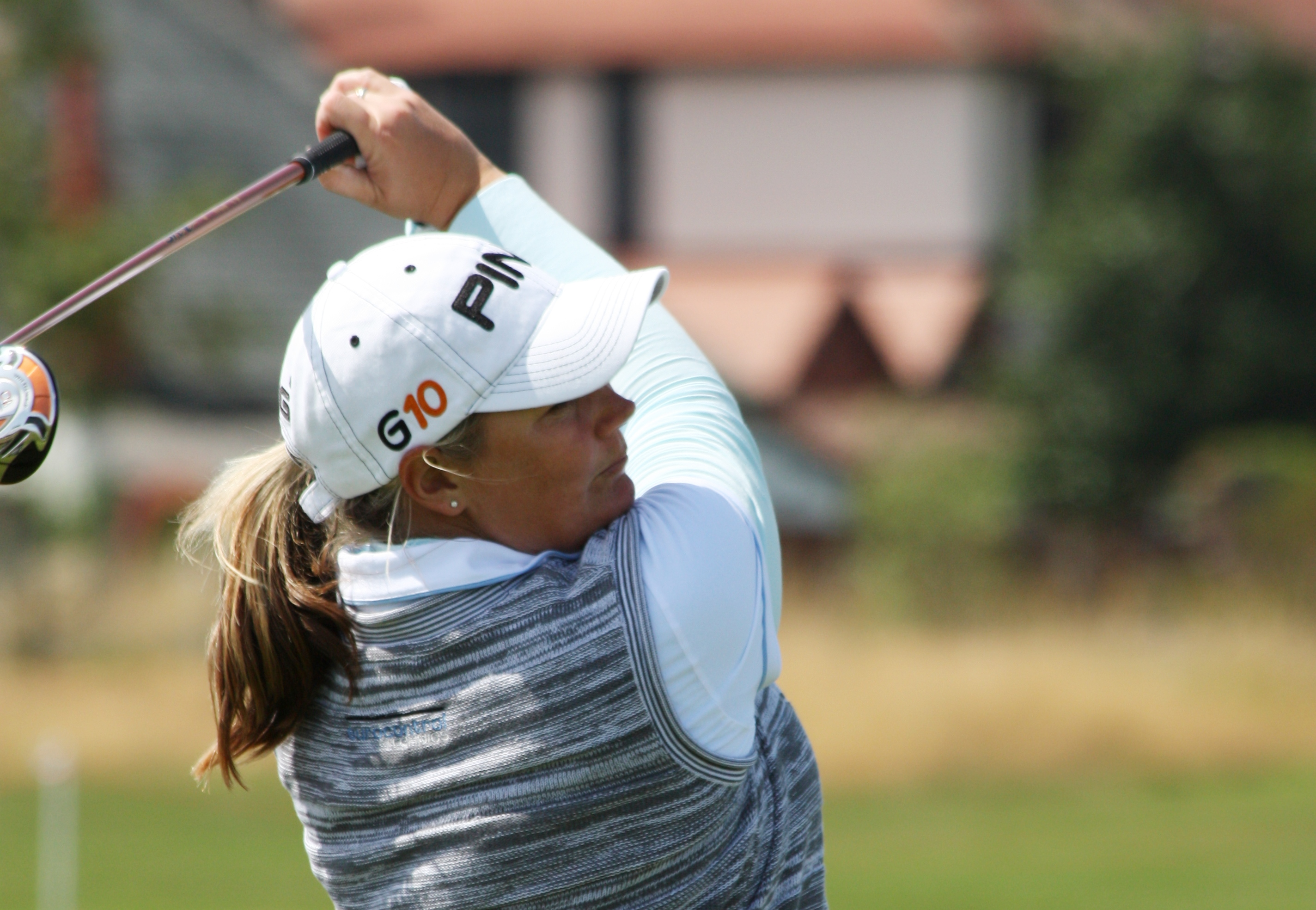 LYTHAM ST ANNES, UNITED KINGDOM - JULY 27: Georgina Simpson of England on the 16th tee during first practice round before 2009 Ricoh Women's British Open held at Royal Lytham & St Annes on July 27, 2009 in Lytham St Annes, England. (Photo by Wojciech Migda)